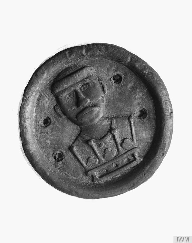 The Collections of the Imperial War Museum The ship badge of HMS Earl of Peterborough.